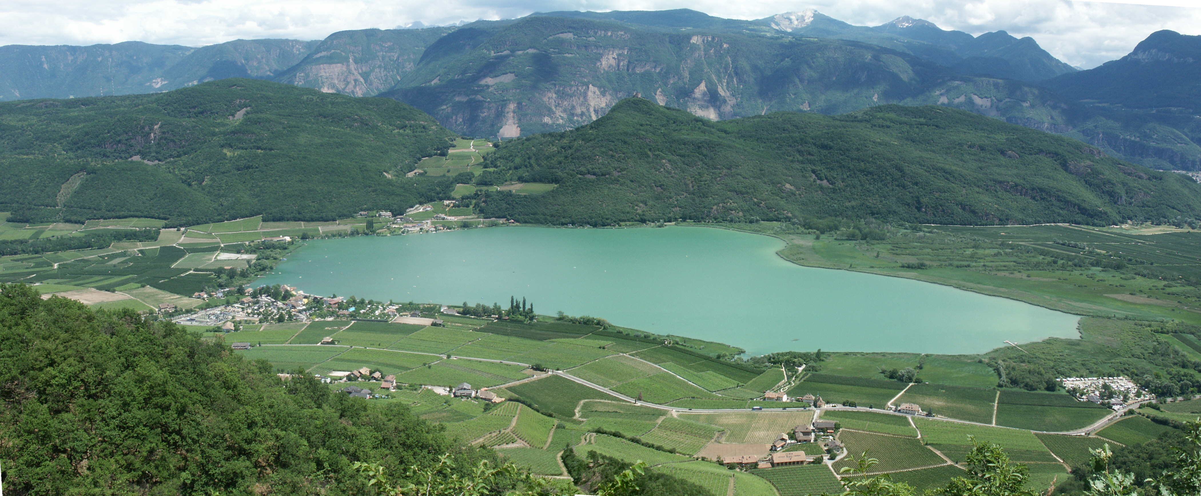 Lake of Kaltern, South Tyrol, Italy - 2 pictures stitched, view from Altenburg